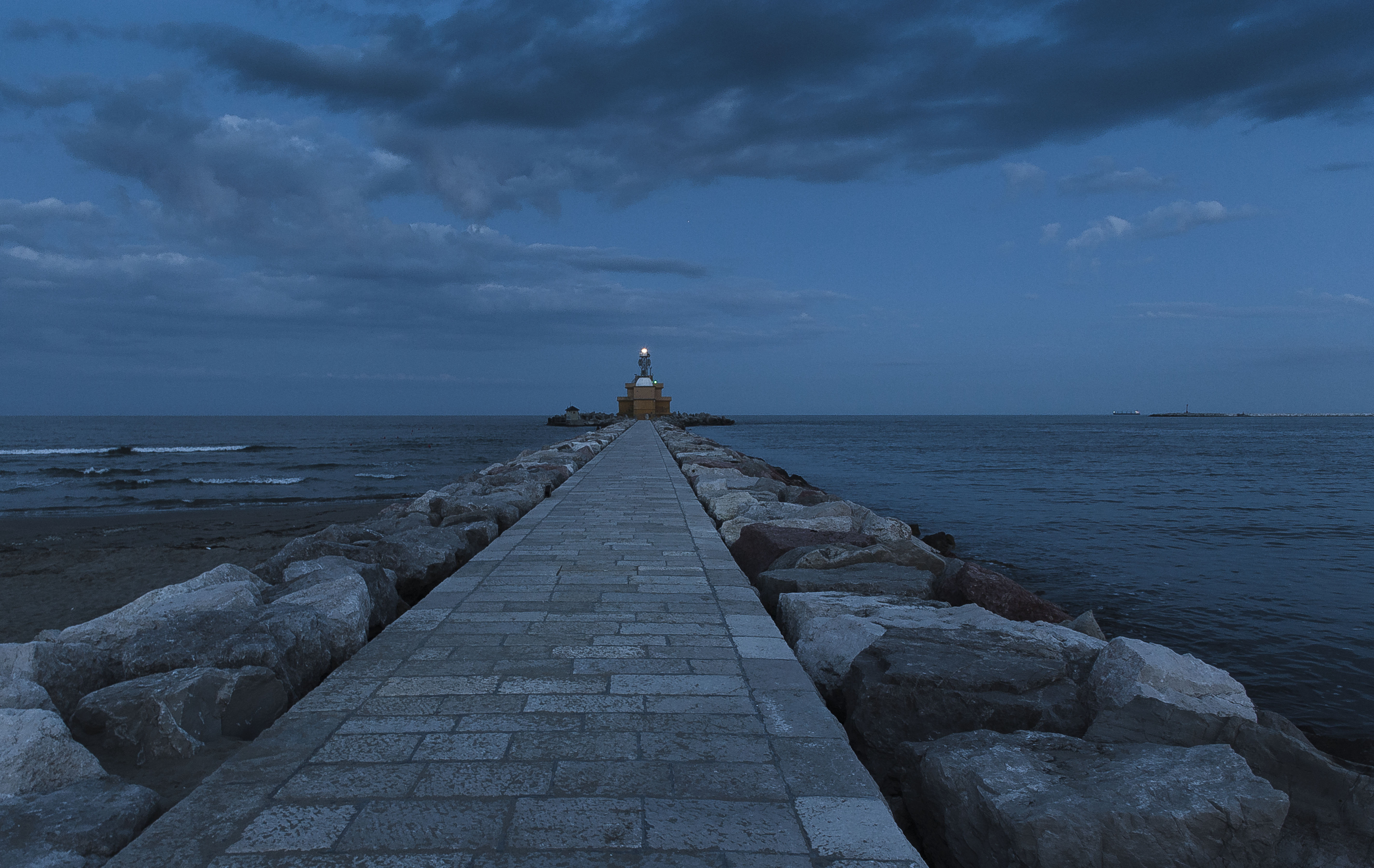 Lighthouse of Punta Sabbioni at the entrance to the lagoon of Venice